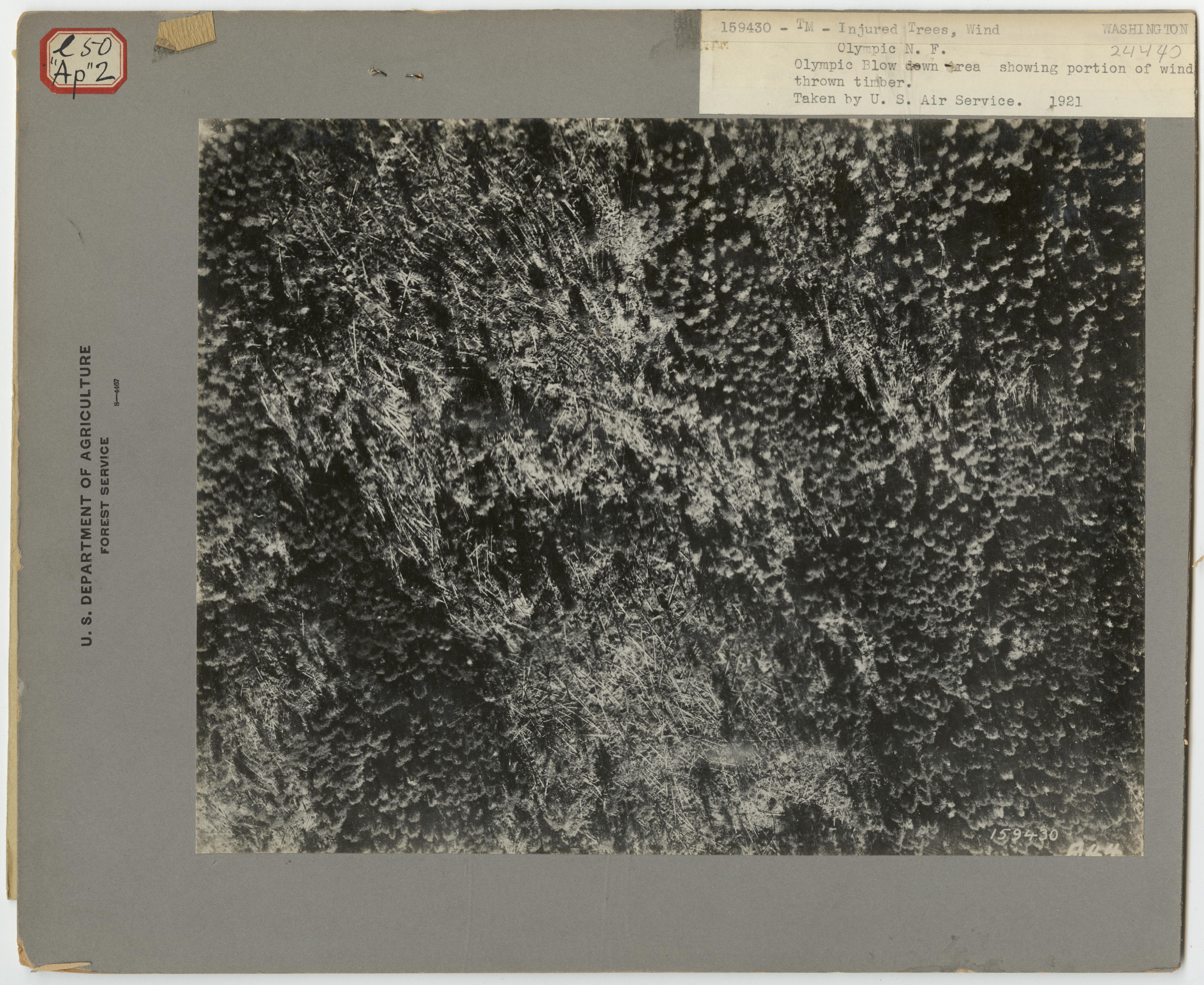 Olympic National Forest blowdown showing portion of the wind thrown timber. Olympic National Forest, Washington. Photo by: U.S. Air Service Date: 1921 Credit: National Archives and Records Administration RG# 95-GP.Records of the Forest Service. General Subject Files. USDA Forest Service Negative Number: 159430 NARA image: 95-GP-1308-Box0307_022_001_AC For more information about this event and Image provided by USDA Forest Service, Pacific Northwest Region, State and Private Forestry, Forest Health Protection